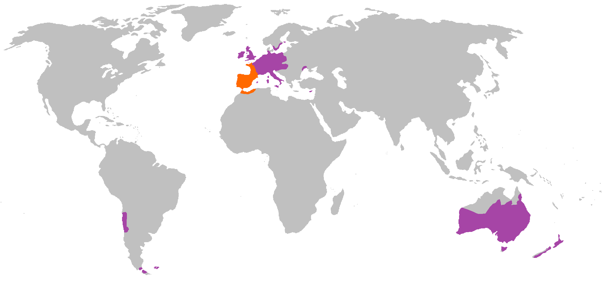 Distribution range map of Oryctolagus cuniculus native introduced